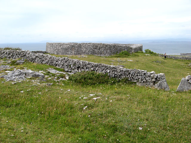 Dun Eoghanachta One of several duns, or forts supposed to originate from the Iron Age. The circular structure is about 90 feet in diameter, with walls 16 feet high and over 12 feet thick. From within or from the wall, which can be reached by internal steps, it is impossible to make an image that gives any sense of place - hence this external view, which is somewhat diminished by a stone field-wall.